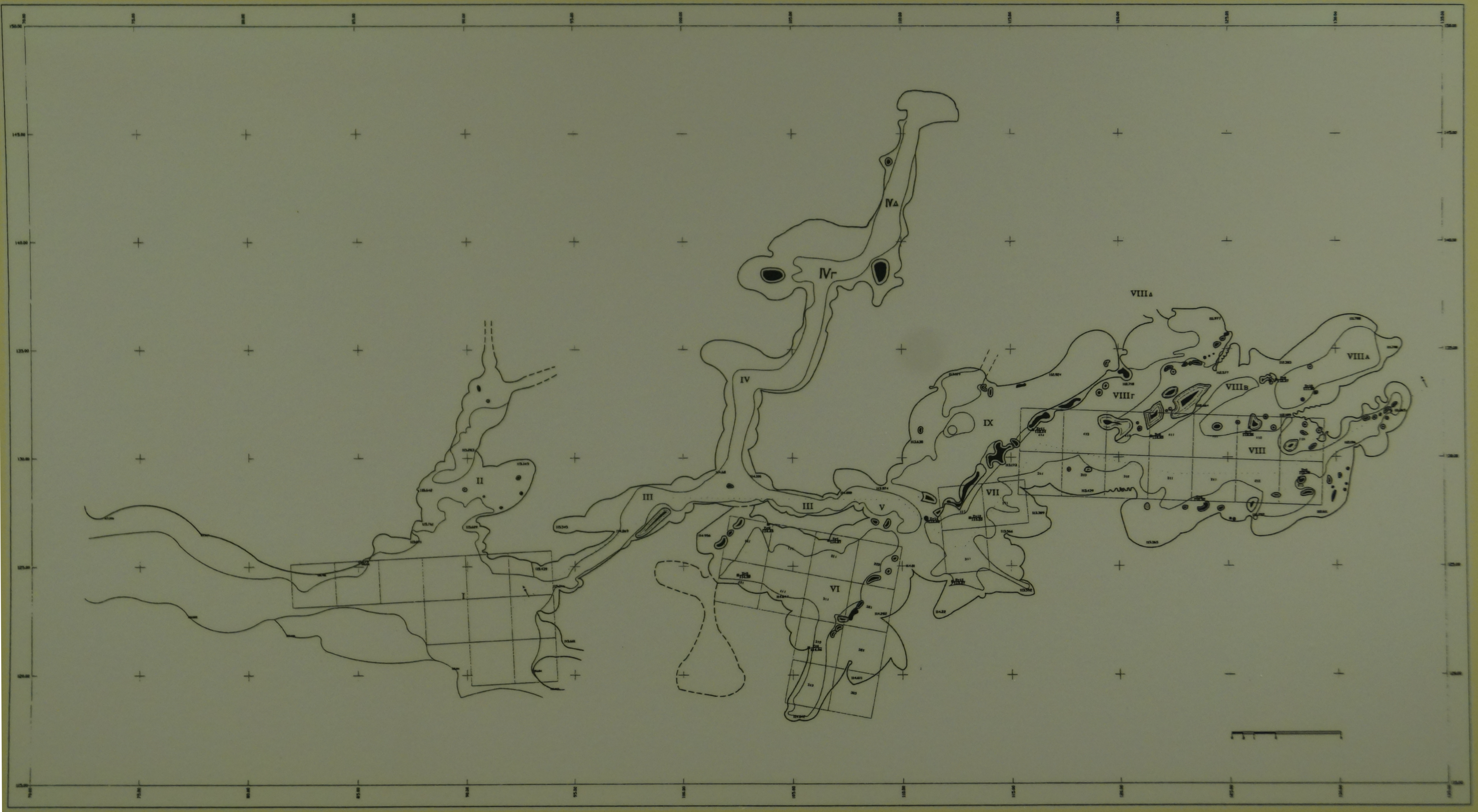 Salamis (City), Salamis, Greece: Archaeological Museum: Plate showing a plan of the Cave of Euripides.